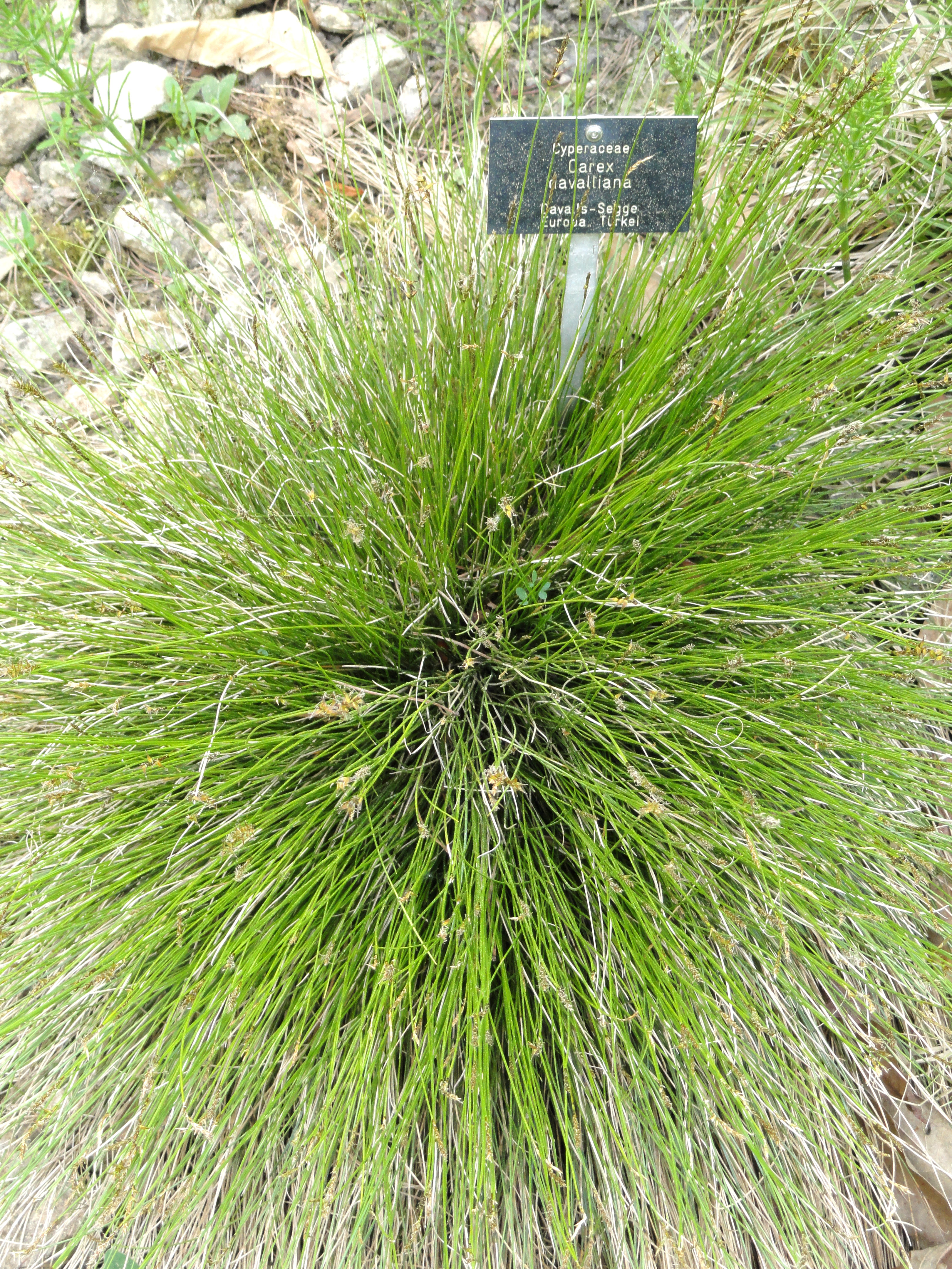 Carex davalliana specimen in the Botanischer Garten Freiburg, Freiburg im Breisgau, Baden-Württemberg, Germany.